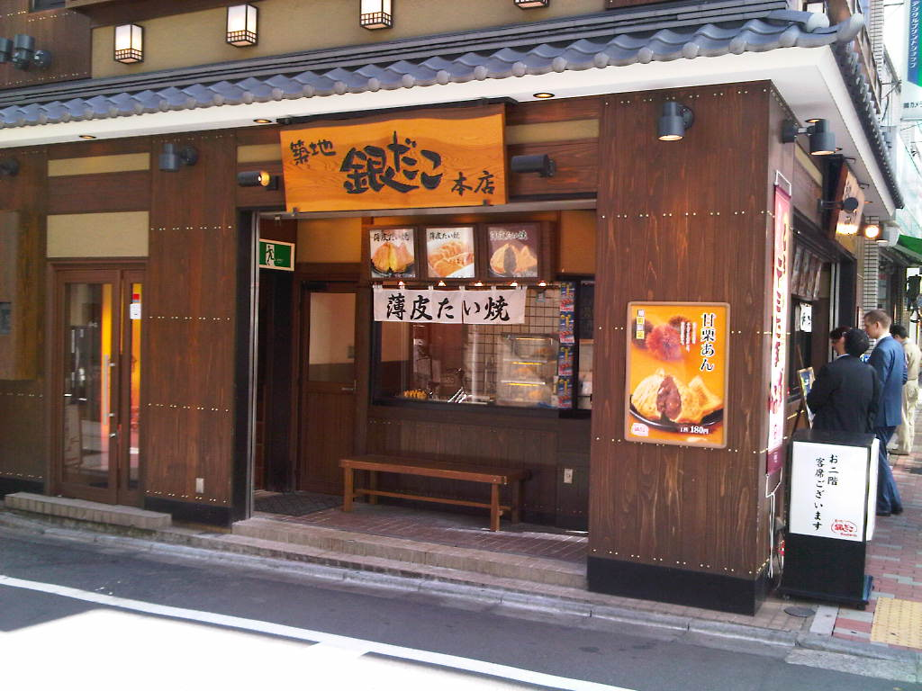 takoyaki gindako